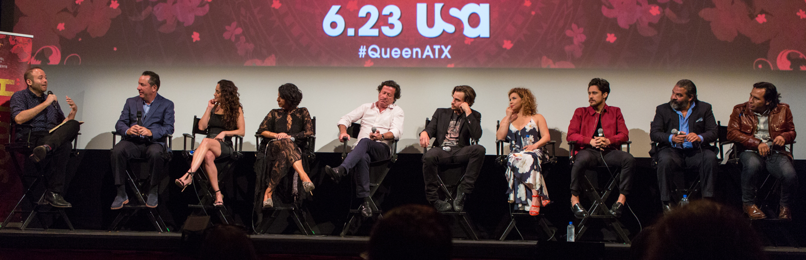 The cast and crew of the TV show Queen of the South at the ATX Television Festival presentation of the show. From left: Moderator Jarett Wieselman, David T. Friendly, Alice Braga, Veronica Falcón, Joaquim De Almeida, Jon-Michael Ecker, Justina Machado, Peter Gadiot, Gerardo Taracena, Hemky Madera and Gerardo Taracena